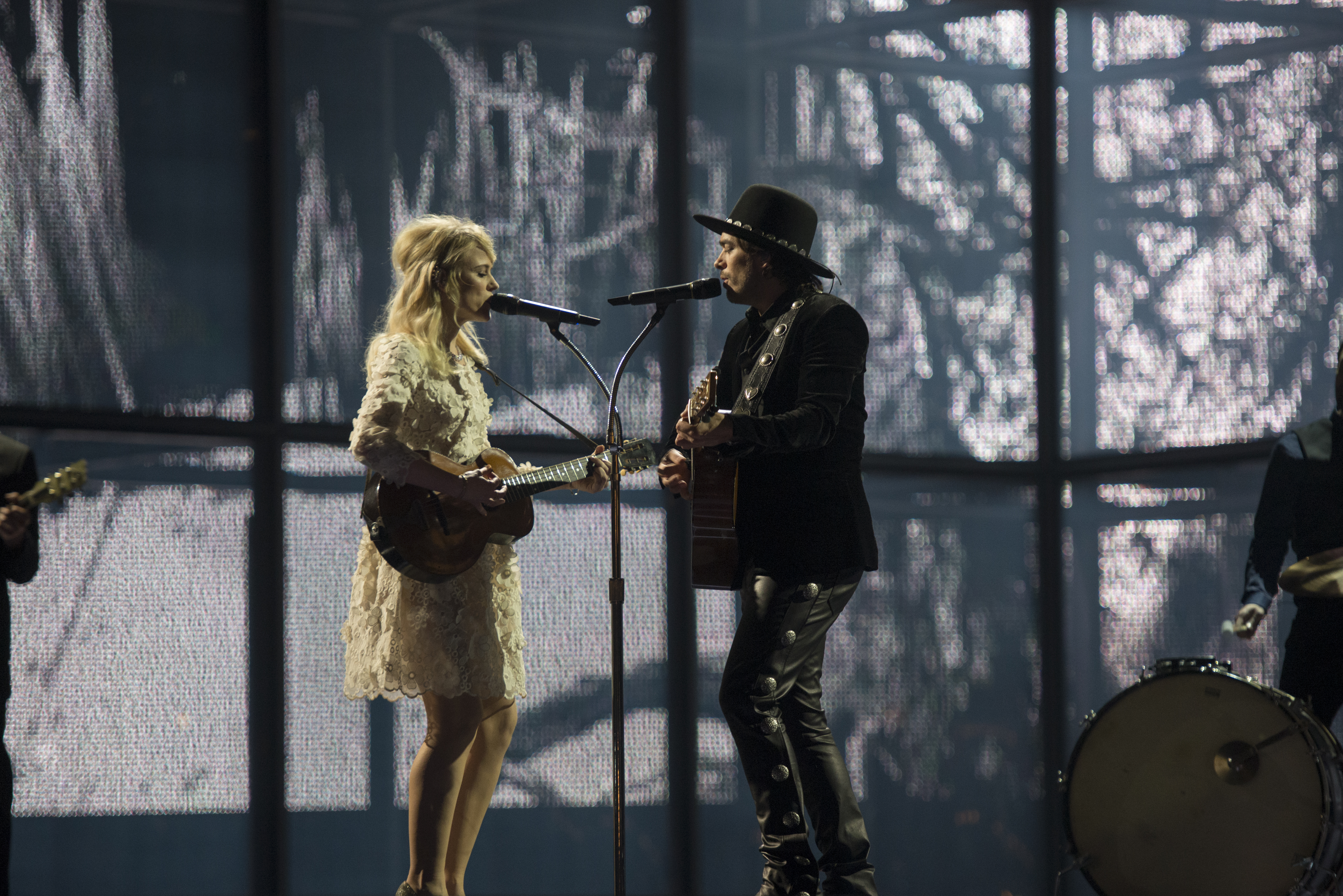 Q15229258 representing Q55 with the song "Q15891515" during the first dress rehearsal of the first semi final of the Q5354210 Q1748. (Help translate this text)